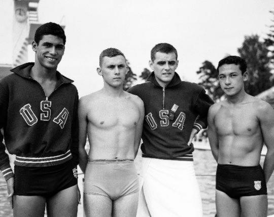 Photograph of the gold medal winning U.S. swimming team of 4 × 200 meters free relay: from the left, William Woolsey (1934–), Wayne Moore (1931–2015), James McLane (1930–), and Ford Konno (1933–).